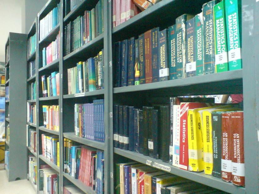 AIUB Library